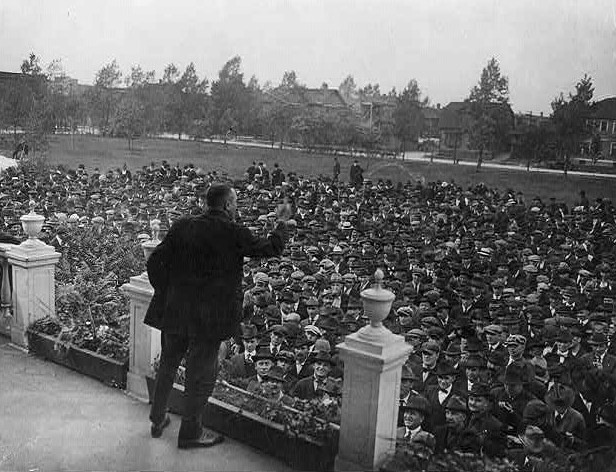 Strike leader (man on balcony) at Gary, Ind., advising strikers